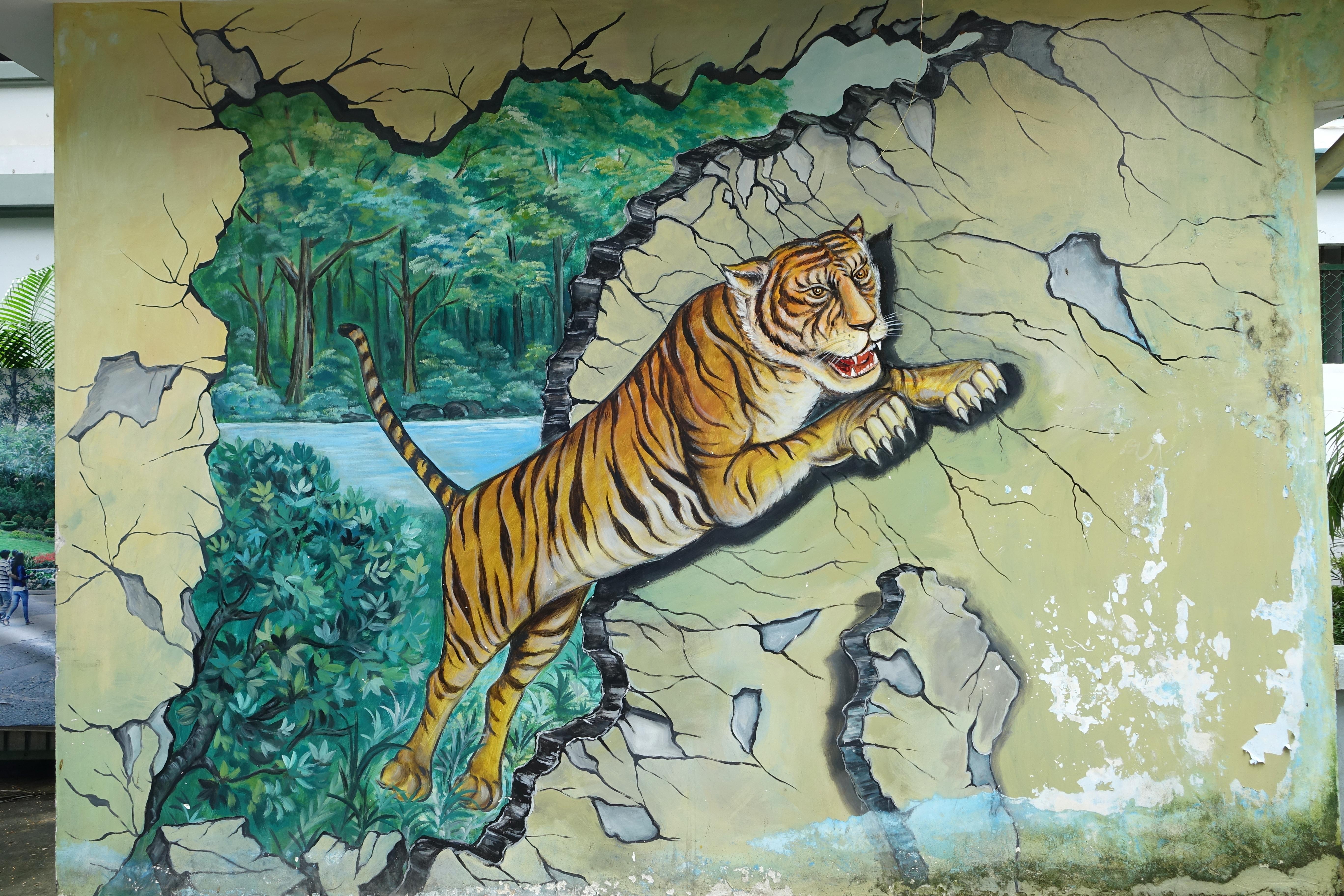 Tiger mural - Saigon Zoo and Botanical Gardens - Ho Chi Minh City, Vietnam